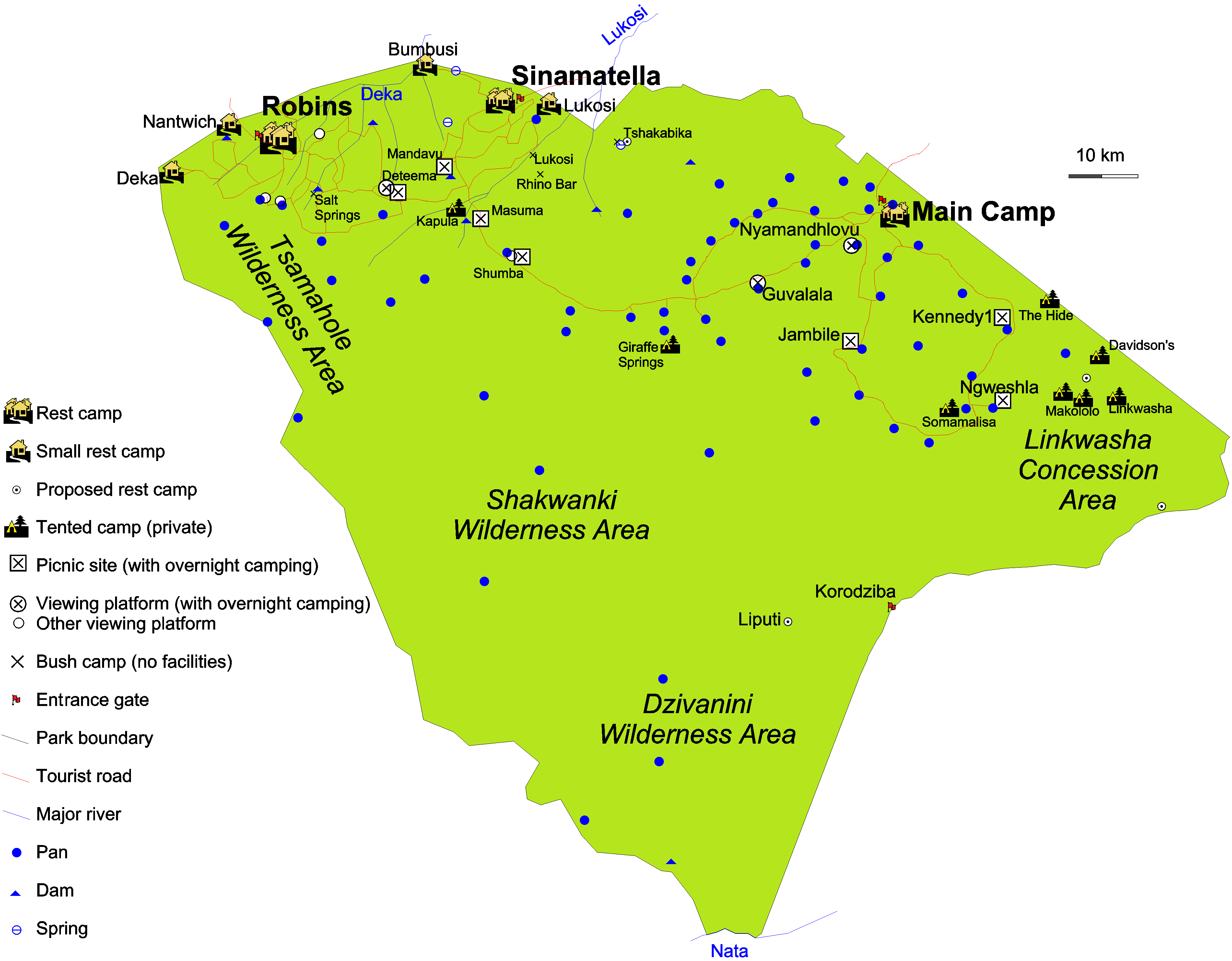 Map of Hwange National Park